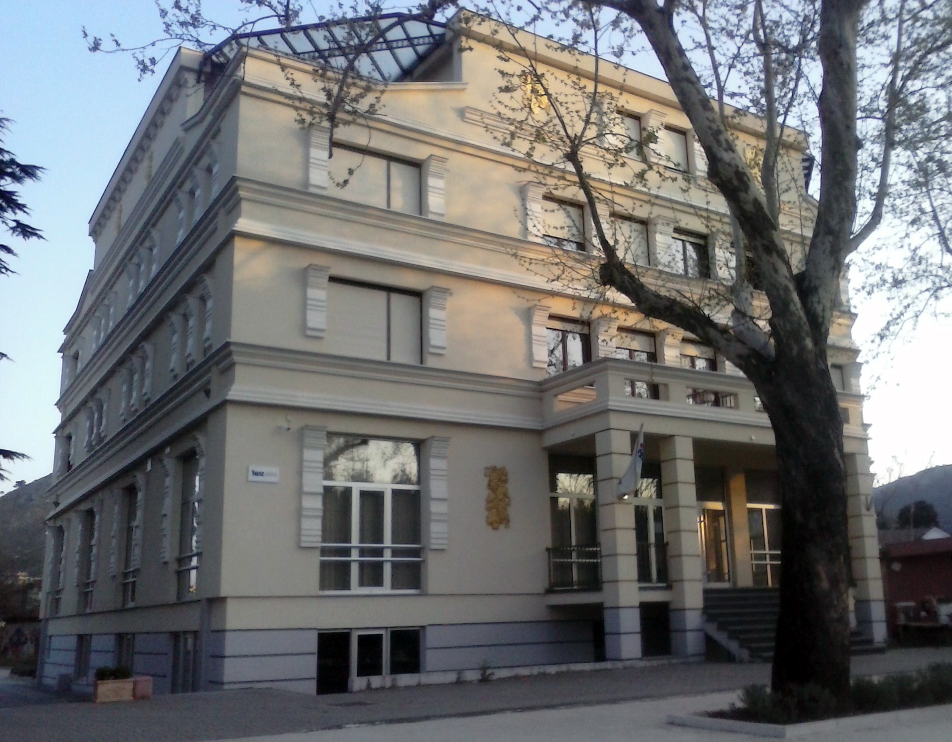 Bulding of the Croatian Democratic Union 1990 in Mostar